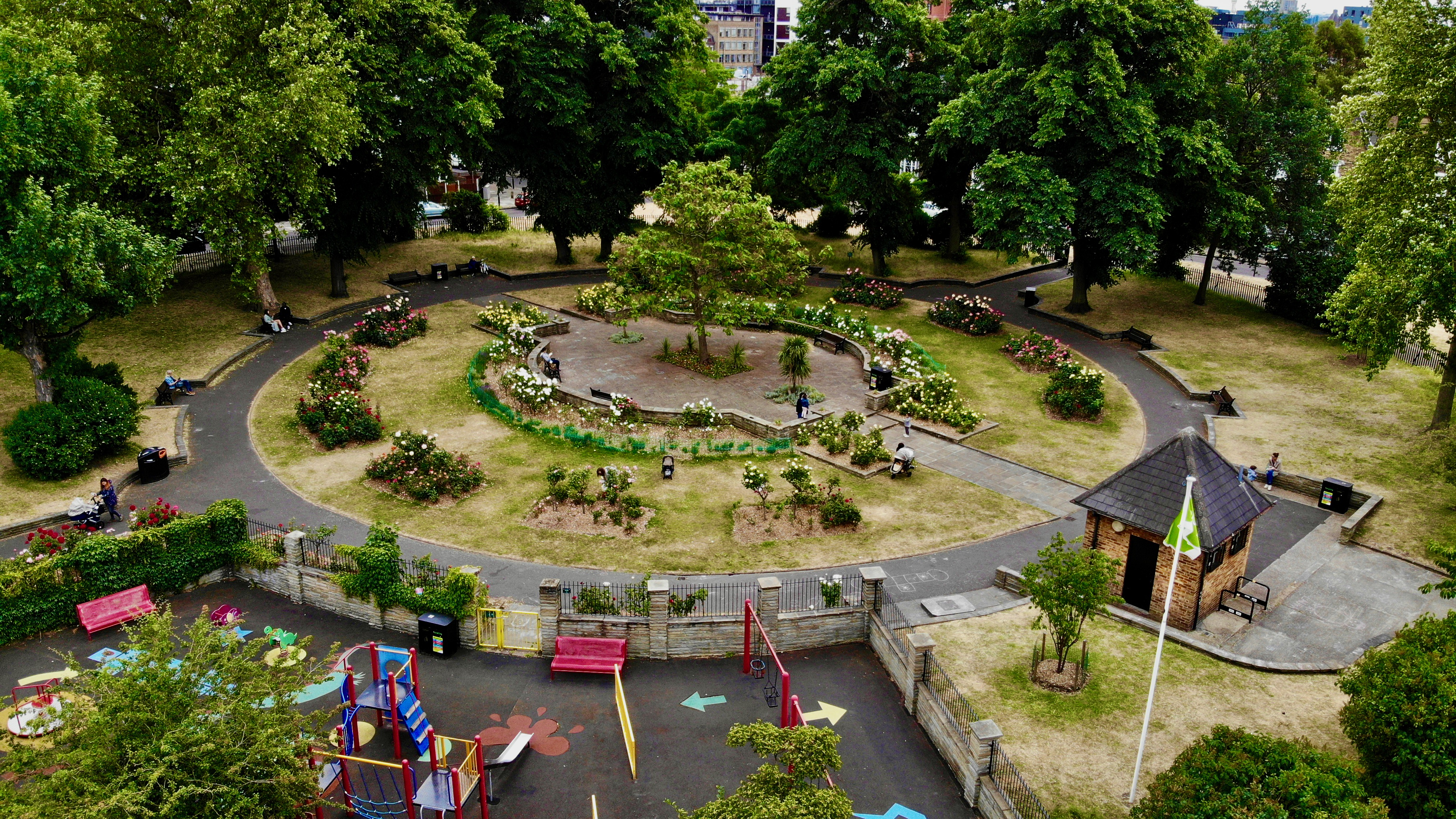 View of the park at the centre of De Beauvoir Town